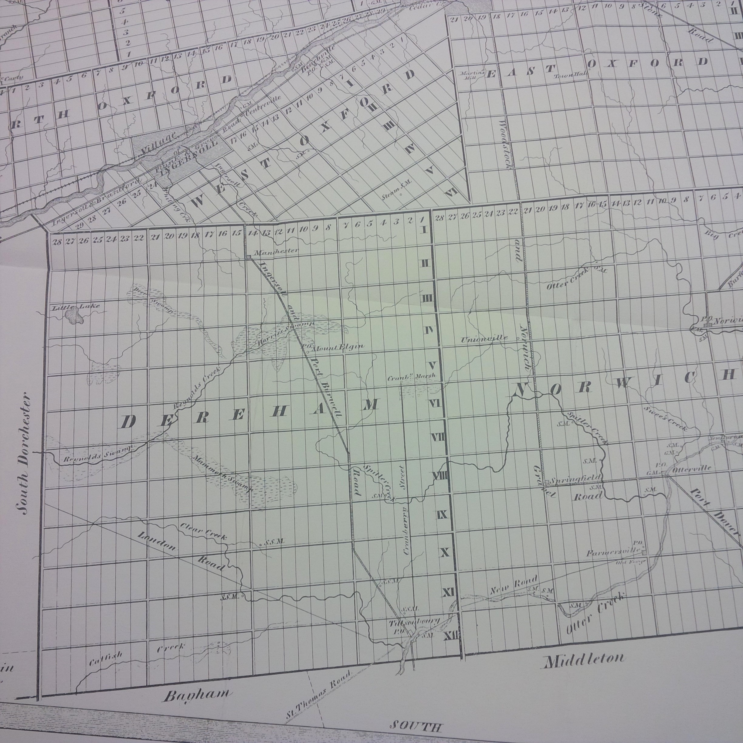 portion of map of Oxford County published in 1852 showing the area amalgamated in 1975 as the Township of South-West Oxford